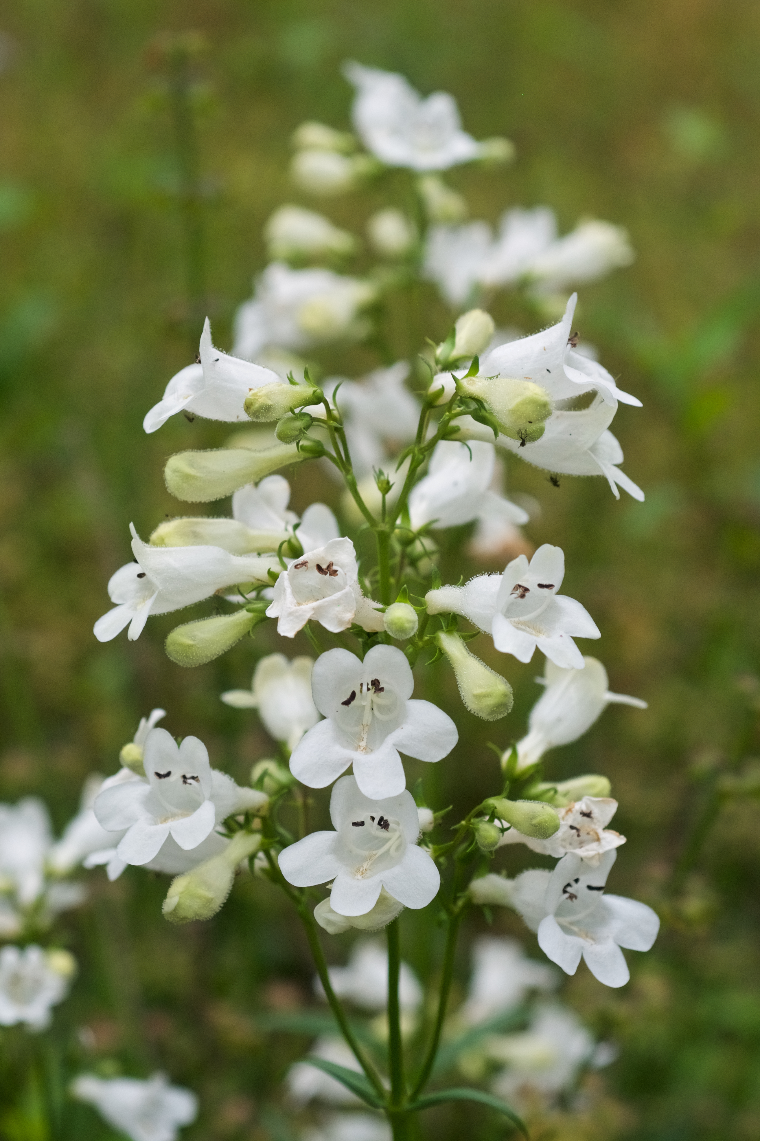 Species from Eastern North America Common name: White Beardtongue Photographed in Boyle Park, Little Rock, Pulaski County, Arkansas